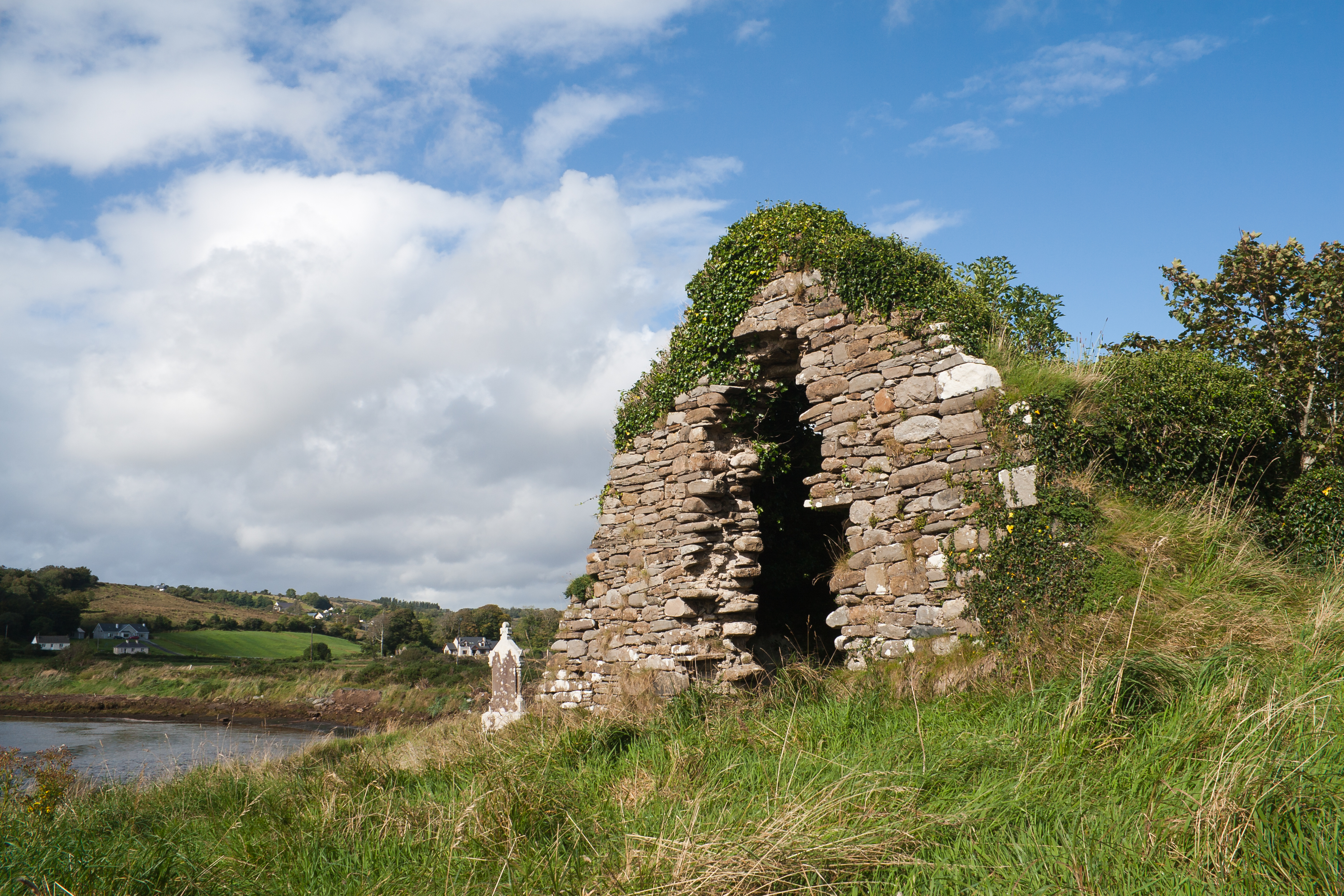 South-west view of the old church at Inver, built in the 12th or 13th century on the site of an early Christian monastery, rebuilt/refurbished in the 17th century, and used until the new church was finished in 1807.